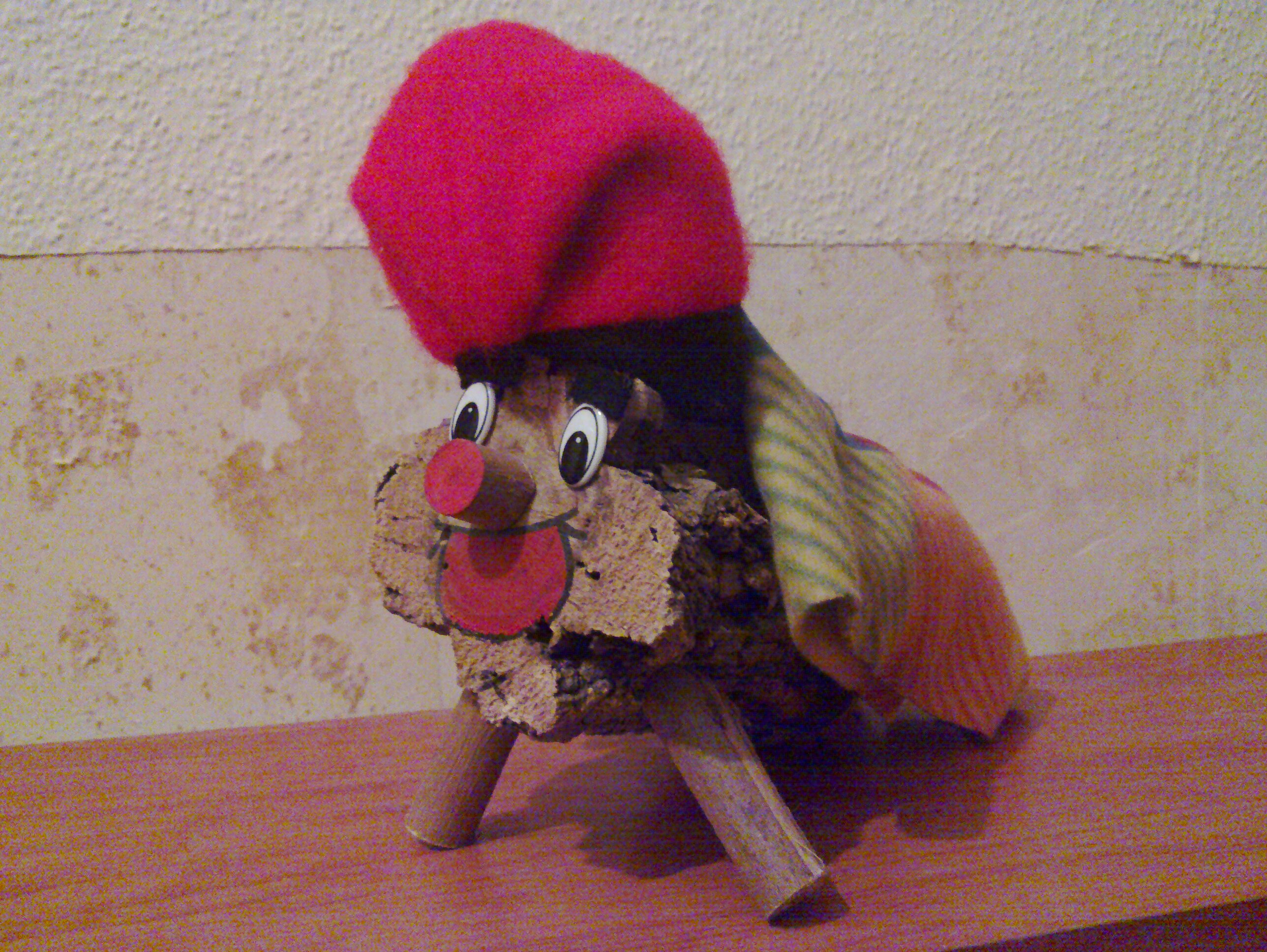 Tió de Nadal for ornament purposes